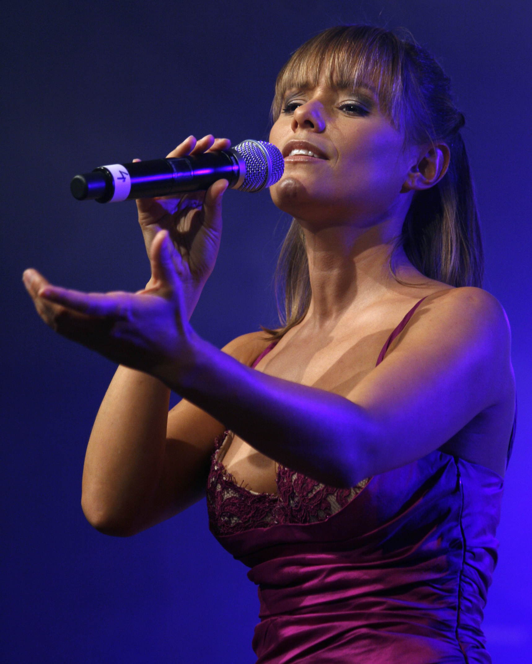 Swiss singer Francine Jordi (concert in Vienna).